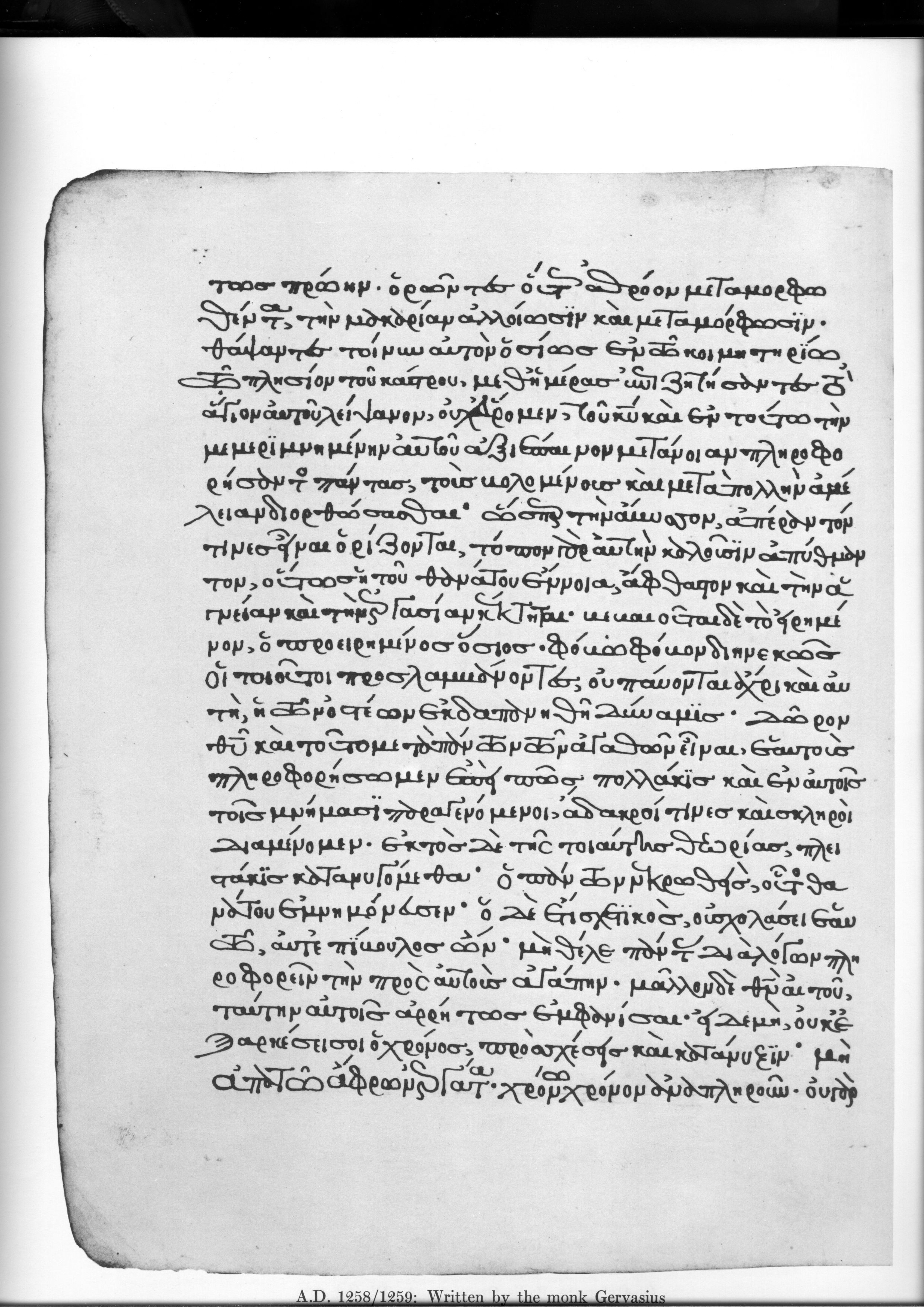 John Climacus, Scala paradisi, in ms. Milan, Biblioteca Ambrosiana, D 58 sup., fol. 58v.